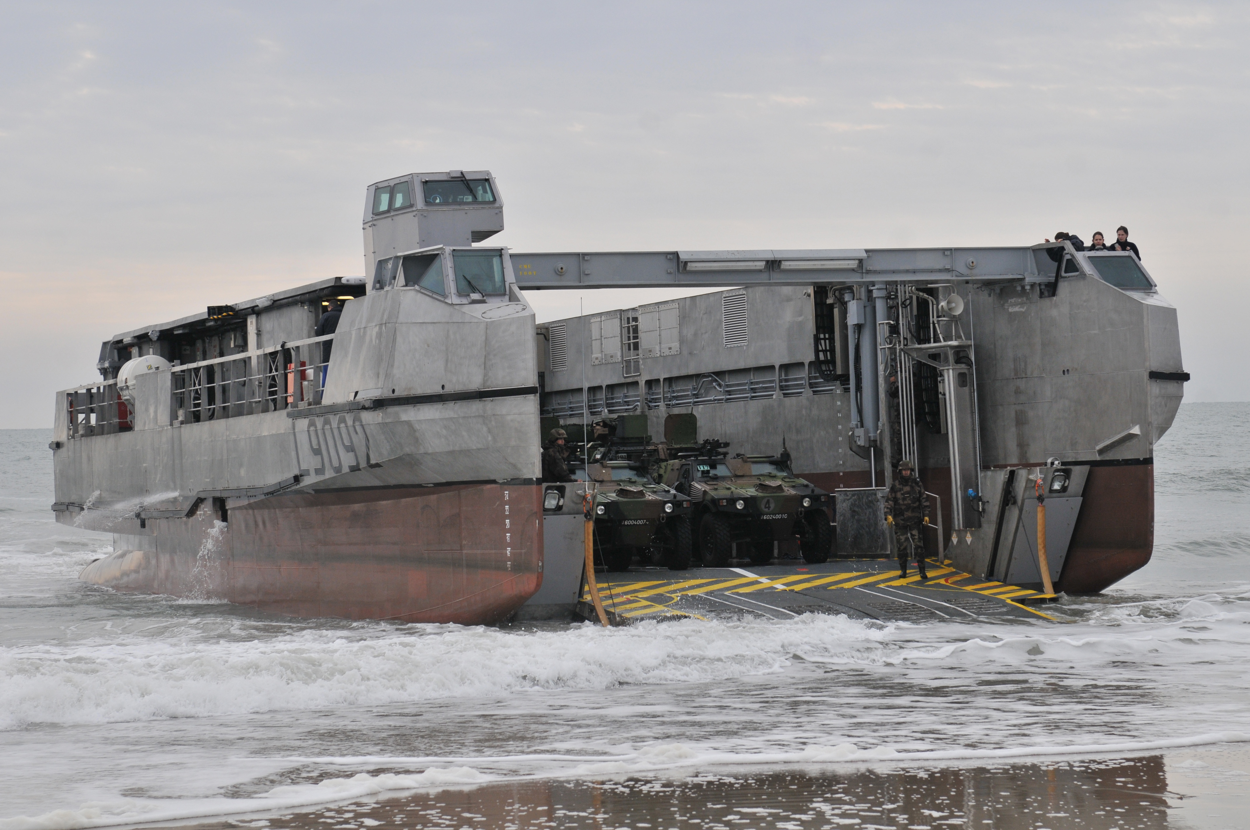 ATLANTIC OCEAN (Feb. 6, 2012) A landing craft from the French amphibious assault ship FS Mistral (L9013) comes ashore during the amphibious assault phase of Bold Alligator 2012. Exercise Bold Alligator 2012, the largest naval amphibious exercise in the past 10 years, represents the Navy and Marine Corps' revitalization of the full range of amphibious operations. The exercise focuses on today's fight with today's forces, while showcasing the advantages of seabasing. This exercise will take place Jan. 30 through Feb. 12, 2012 afloat and ashore in and around Virginia and North Carolina. #BA12 (U.S. Navy photo by Mass Communication Specialist 2nd Class Tom Gagnier/Released) 120206-N-VG904-340